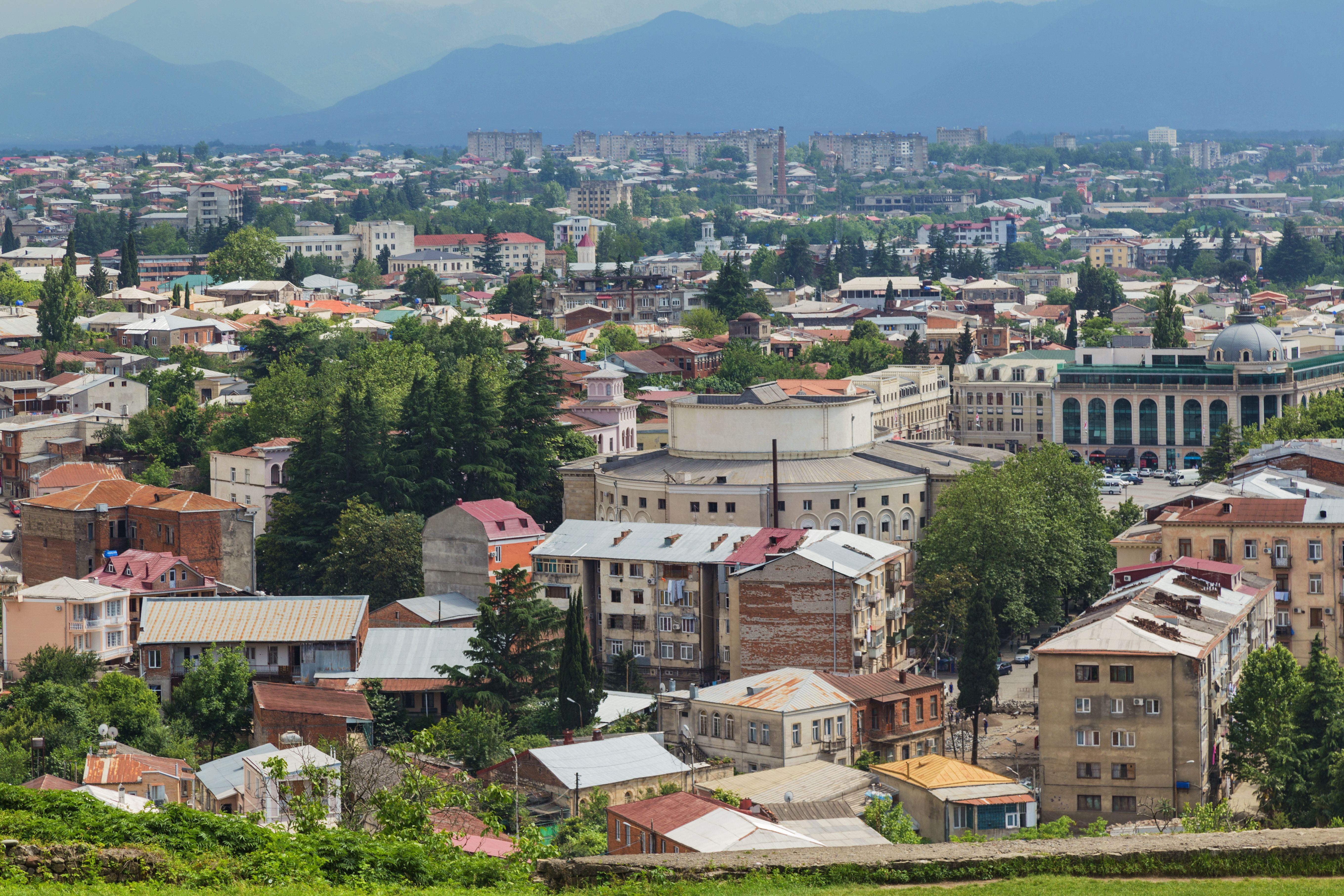 View of the city from the Bagrati Cathedral. Kutaisi, Imereti, Georgia.